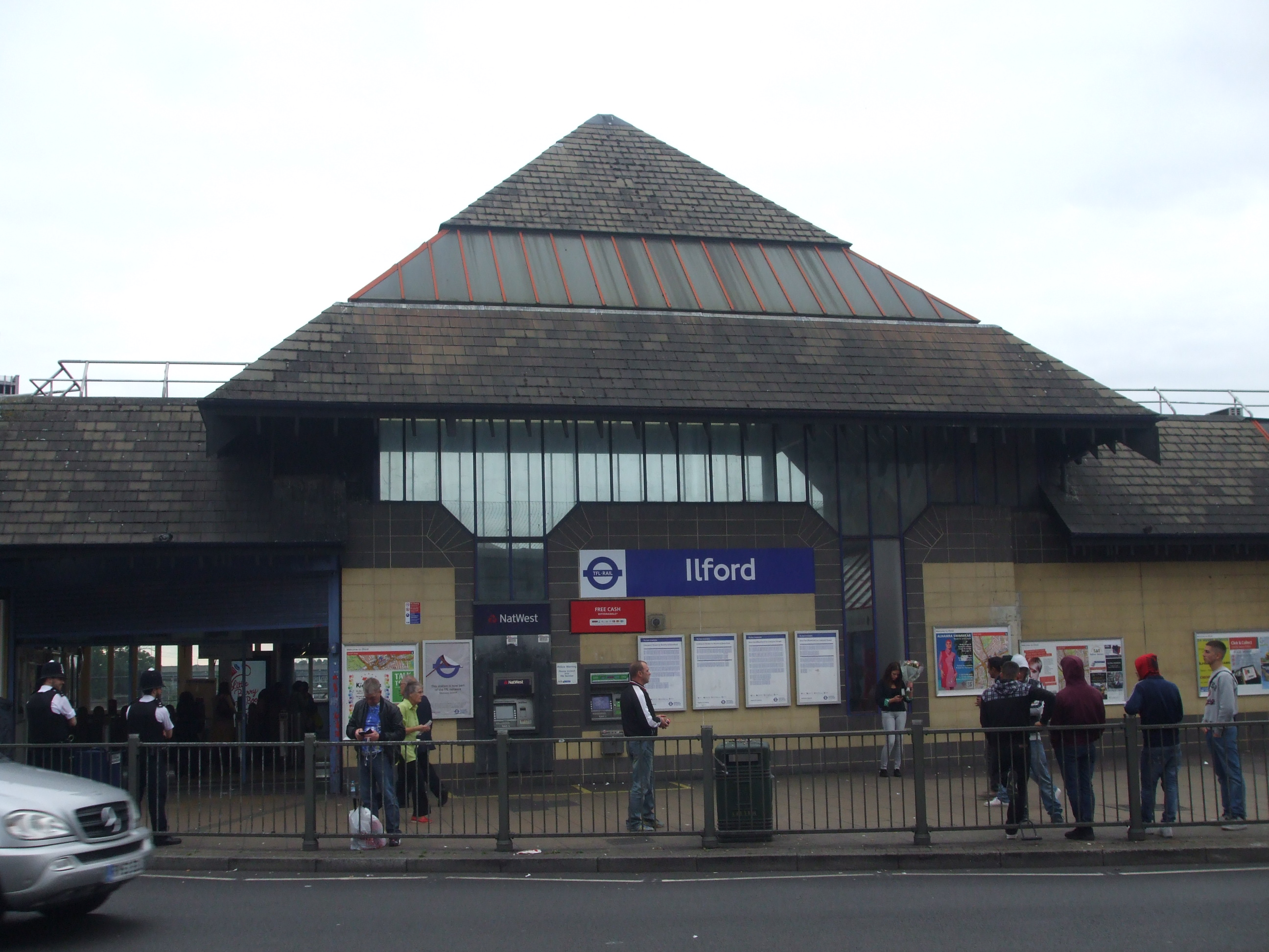 Ilford station main building on Cranbrook Road, in June 2015, after transfer of services to TfL Rail.